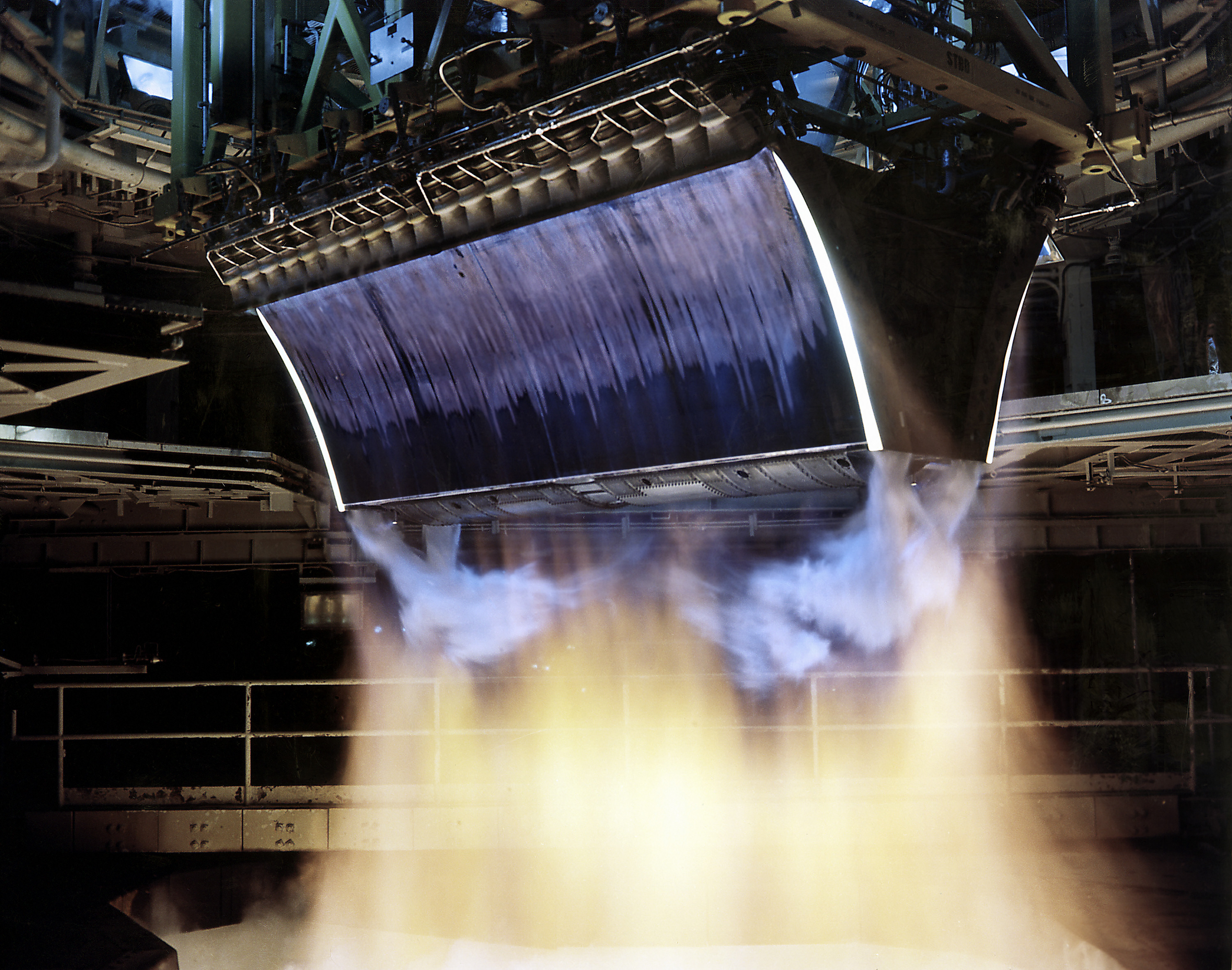 The test of twin Linear Aerospike XRS-2200 engines, originally built for the X-33 program, was performed on August 6, 2001 at NASA's Stennis Space Center, Mississippi. The engines were fired for the planned 90 seconds and reached a planned maximum power of 85 percent. NASA's Second Generation Reusable Launch Vehicle Program , also known as the Space Launch Initiative (SLI), is making advances in propulsion technology with this third and final successful engine hot fire, designed to test electro-mechanical actuators. Information learned from this hot fire test series about new electro-mechanical actuator technology, which controls the flow of propellants in rocket engines, could provide key advancements for the propulsion systems for future spacecraft. The Second Generation Reusable Launch Vehicle Program, led by NASA's Marshall Space Flight Center in Huntsville, Alabama, is a technology development program designed to increase safety and reliability while reducing costs for space travel. The X-33 program was cancelled in March 2001.